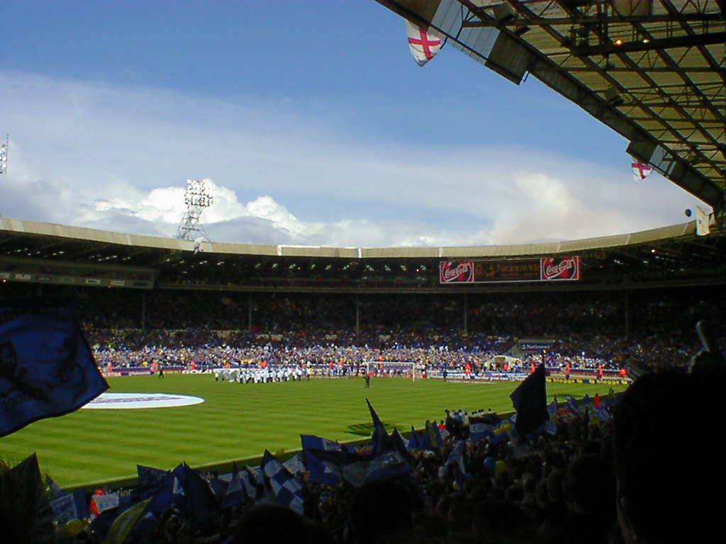 Gillingham fans at the 2000 Division Two play-off final. Gillingham fans waving banners before the match. The first play-off final of the 1995–96 season was bathed in sunshine.